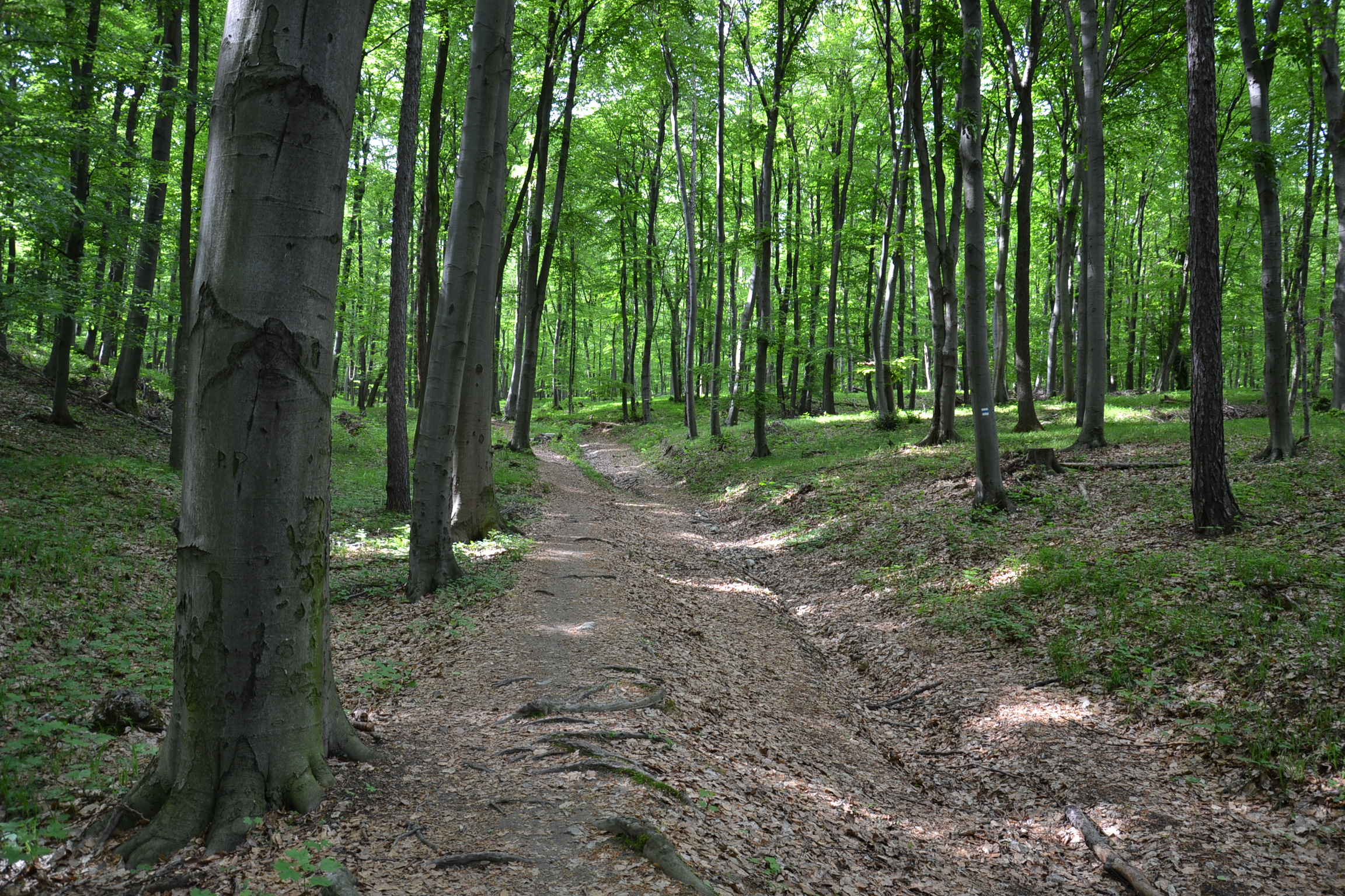 Hiking trail nr 2409b in Slovakia